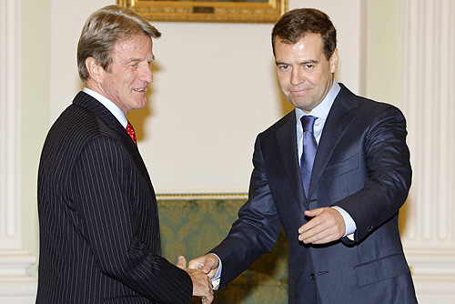 THE KREMLIN, MOSCOW. With French Foreign Minister Bernard Kouchner.